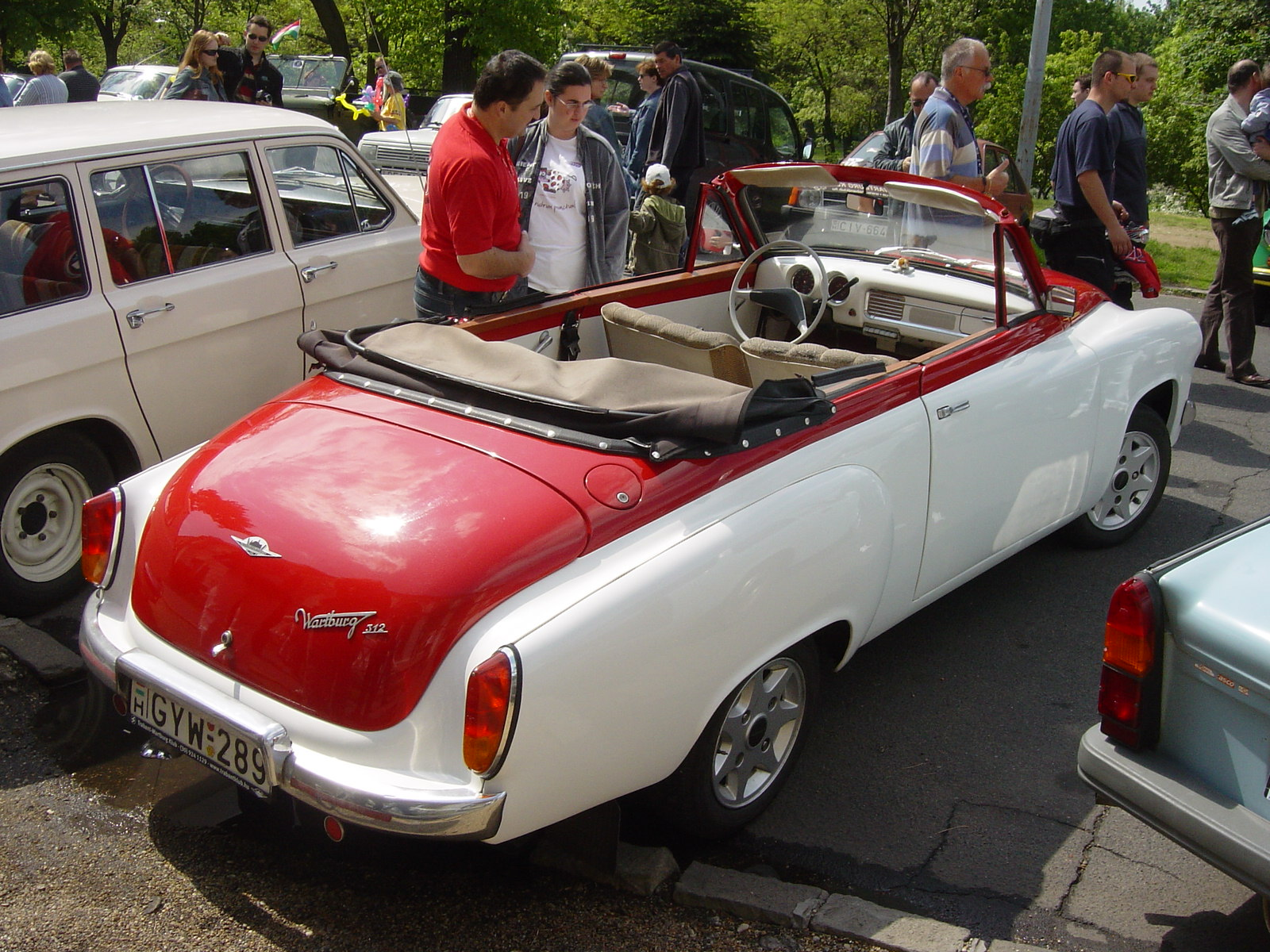 Wartburg 312 convertable during the Szocialista Jáműipar Gyöngyszemei 2008.